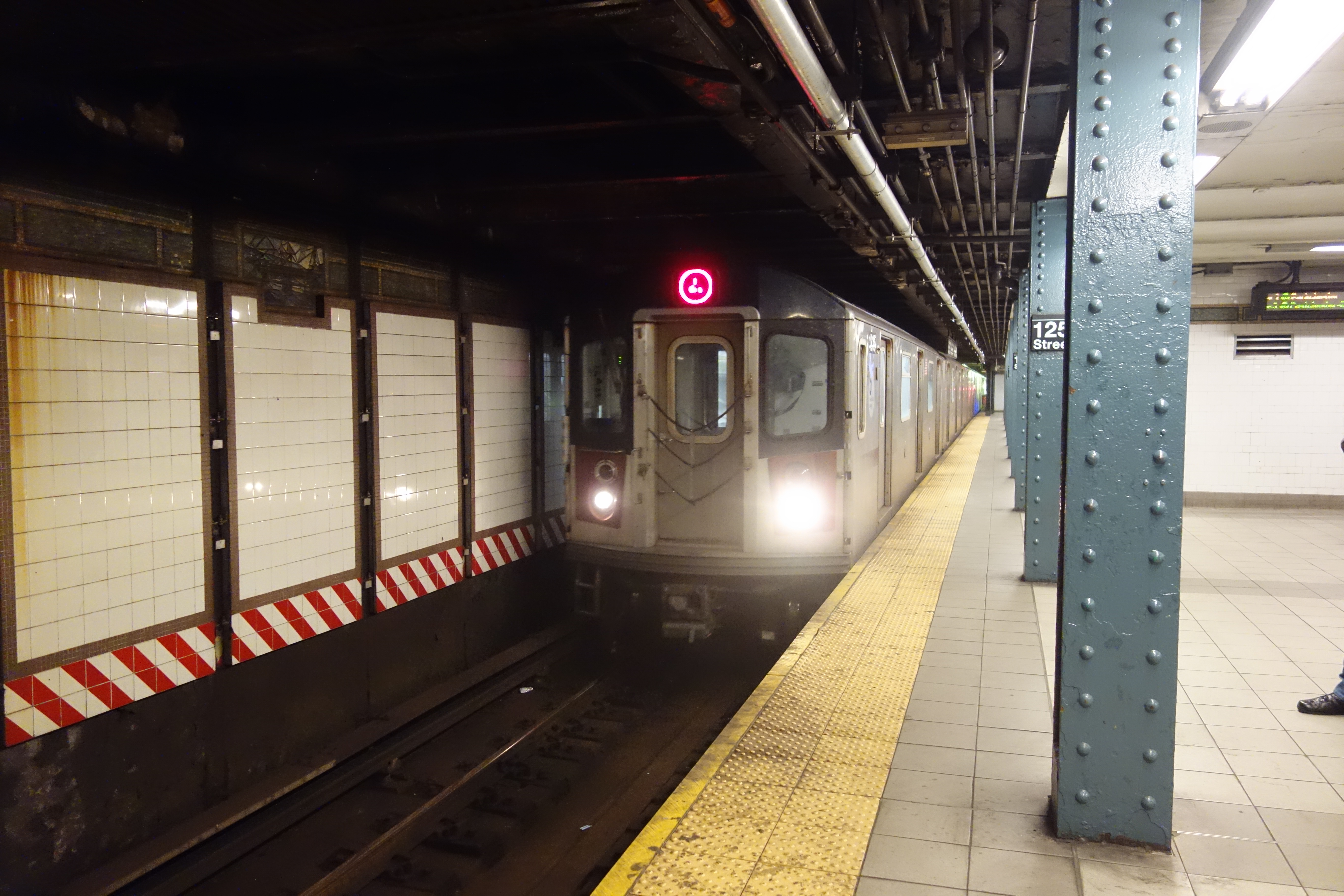 A 149th Street–Grand Concourse-bound 4 express train arriving at the Uptown platform of the 125th Street IRT Lexington Avenue station in East Harlem, Manhattan. The IRT is a confusing place after rush hour.